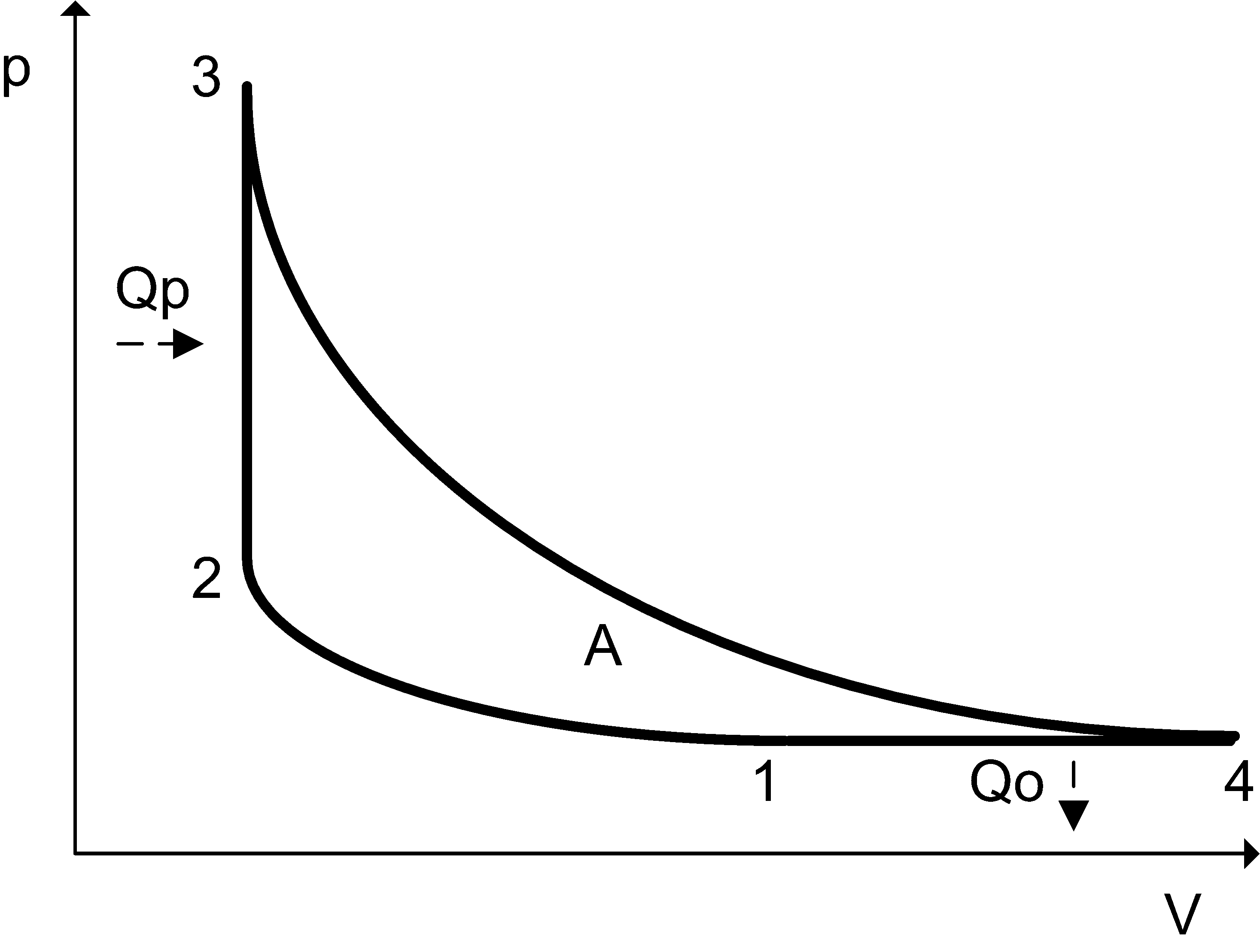 Humphrey cycle in p-V diagram.